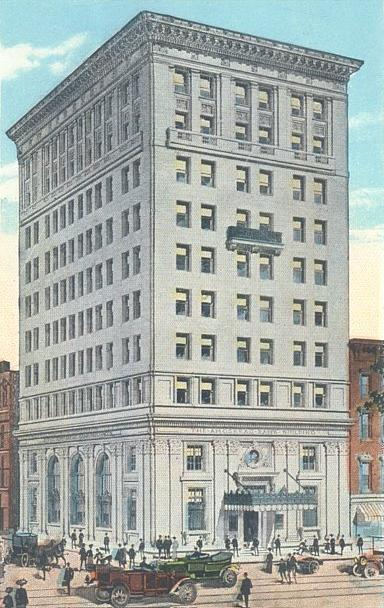 Amoskeag Bank Building, Manchester, NH; from a 1913 postcard.